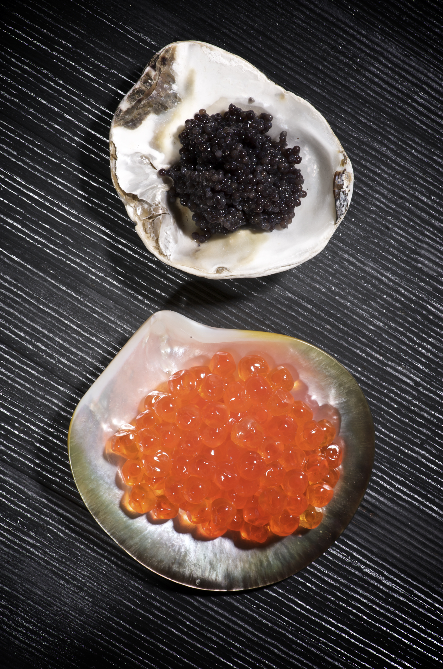 Caviar - beluga ("Huso Huso" sturgeon roe) and salmon roe